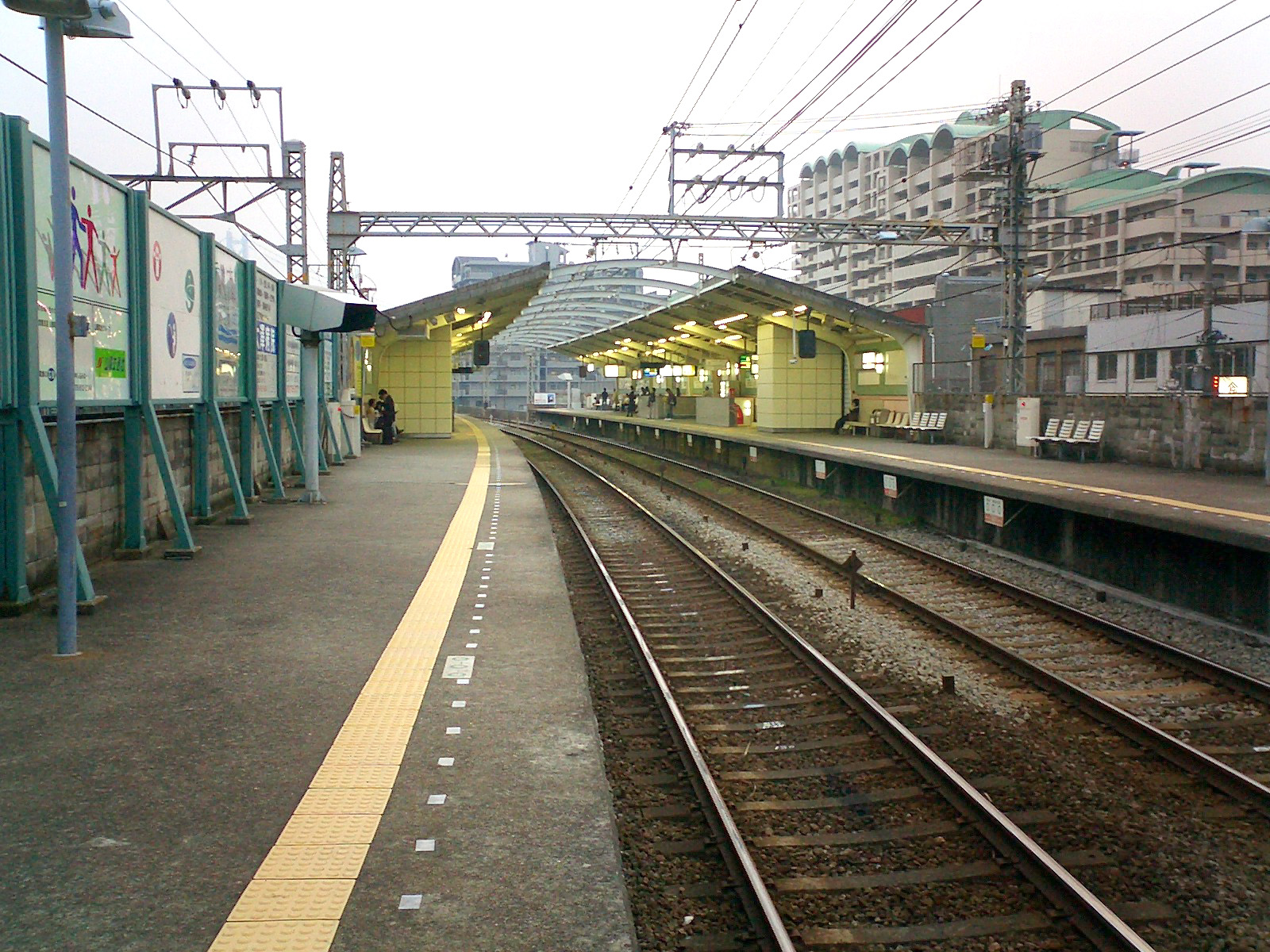 Sanyo Electric Railway Main Line Sanyo-Tarumi Station Platform